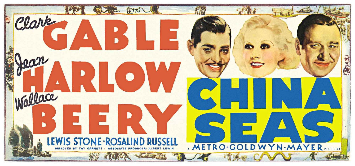 Poster for the 1935 film China Seas